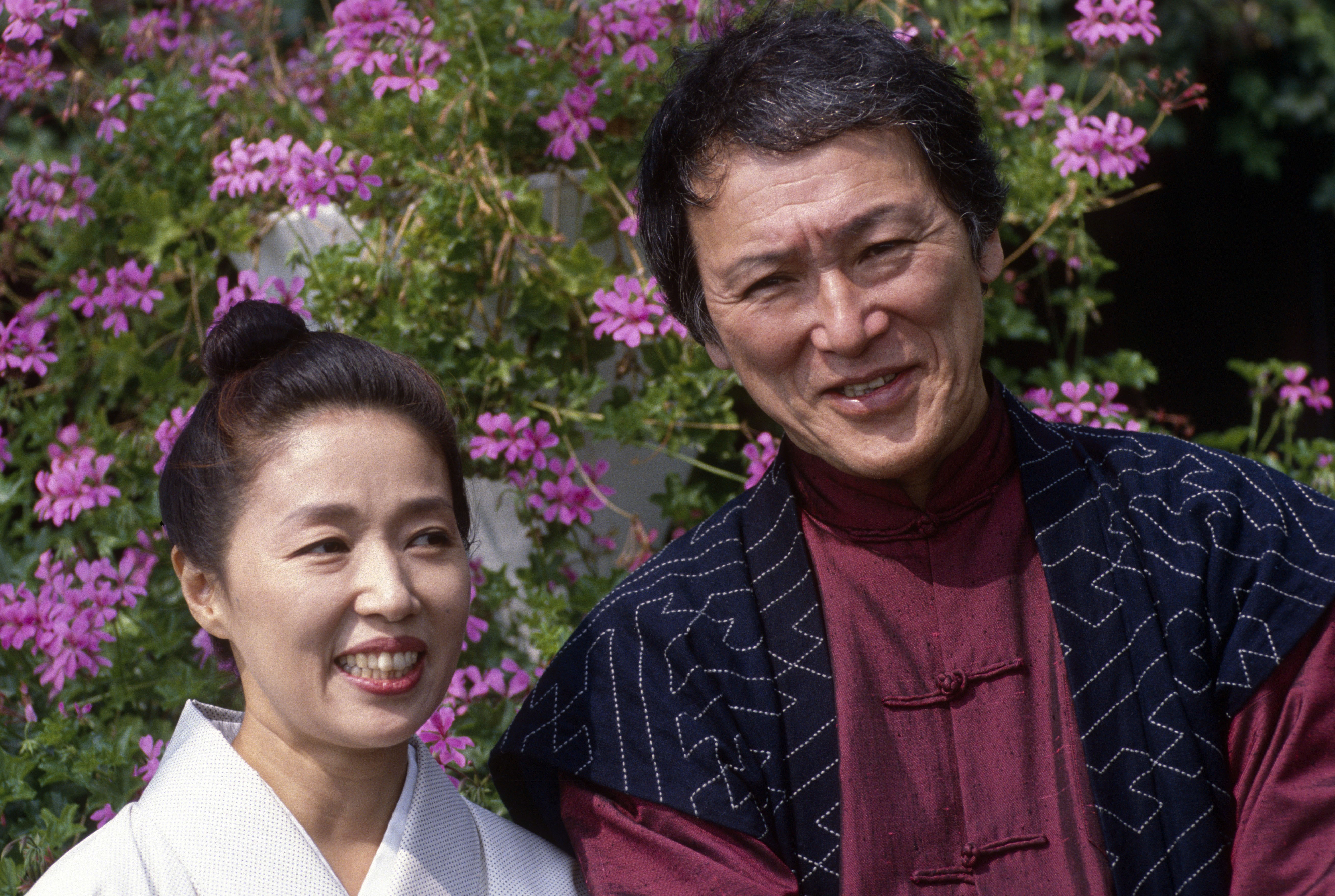 Juzo Itami and Nobuko Miyamoto